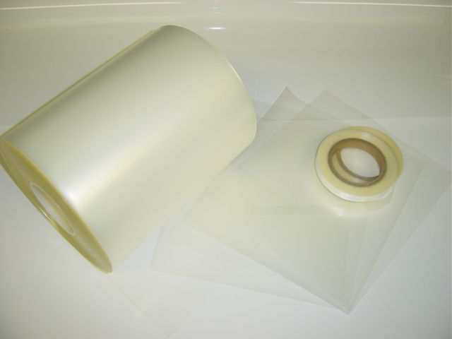 Plastic film